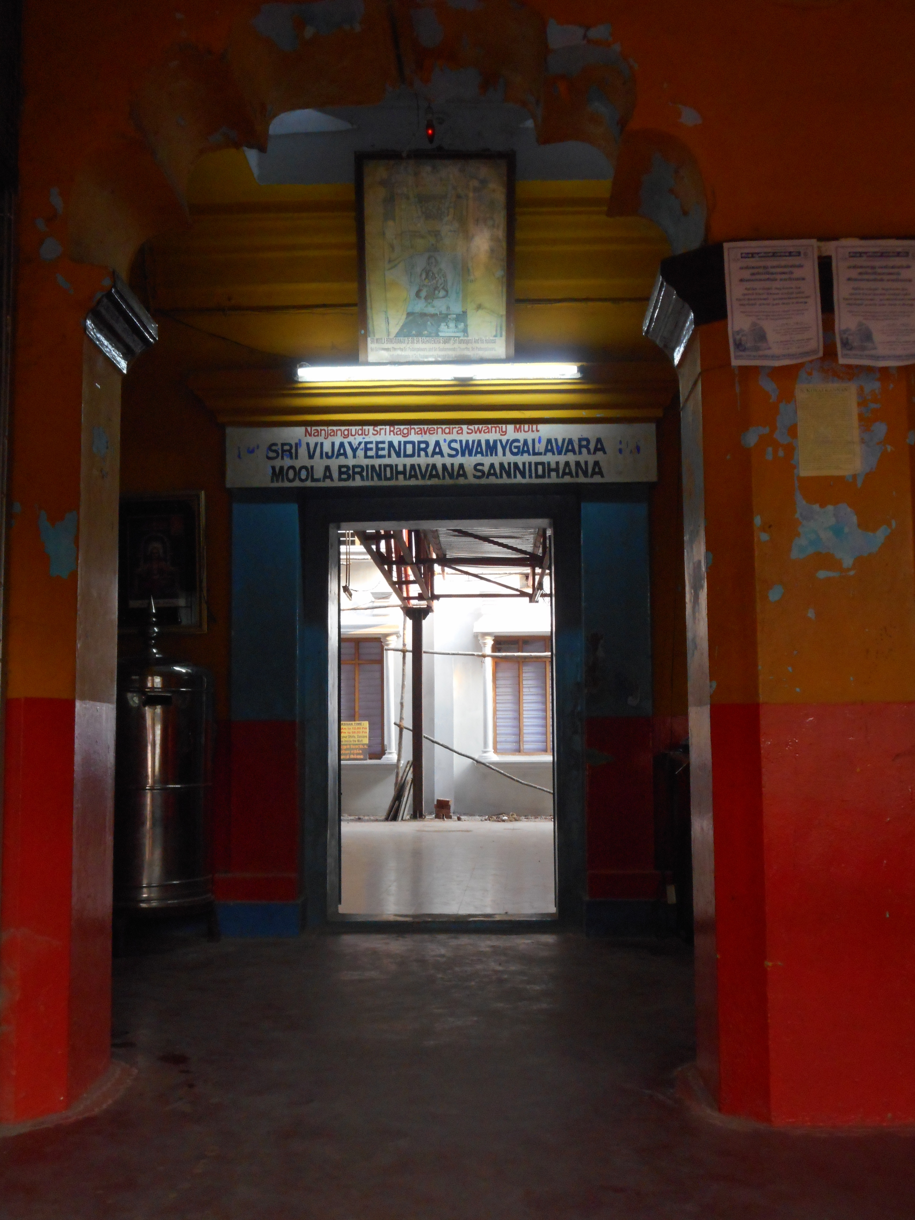 Vijendraswamy mutt entrance விஜேந்திரசுவாமி மடம் நுழைவாயில்